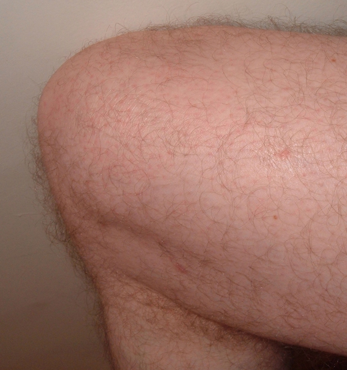 Human male knee (author's). One of a series of common objects I photographed in the summer of 2005 to illustrate Basic English picture wordlist. --agr 21:08, 3 August 2005 (UTC)